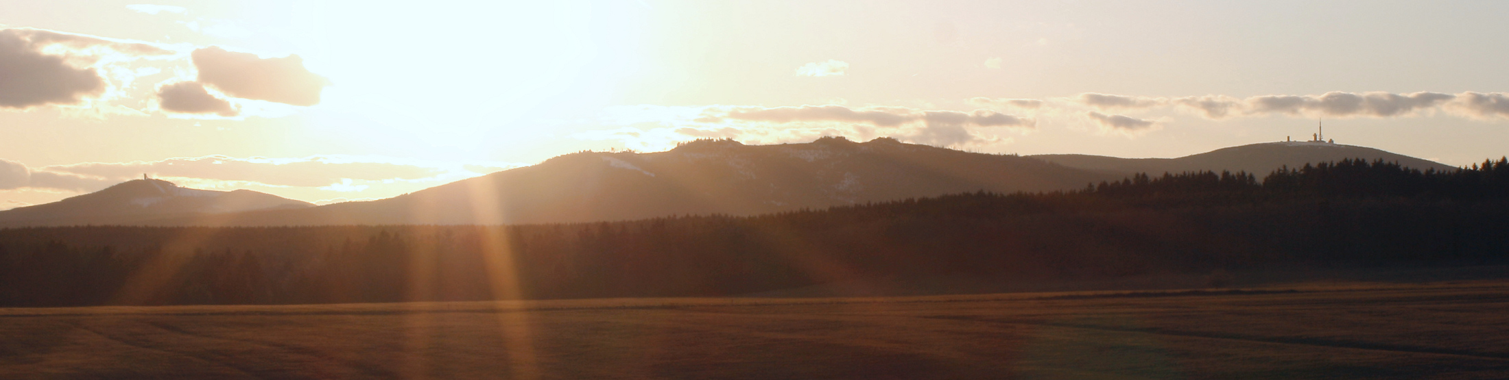 The mountains of the Wurmberg, Hohnekamm, and Brocken (from left to right) seen from the east from Büchenberg. Harz mountains, Germany